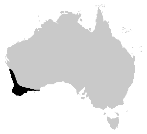 Distribution of the Slender Tree Frog (Litoria adelaidensis).